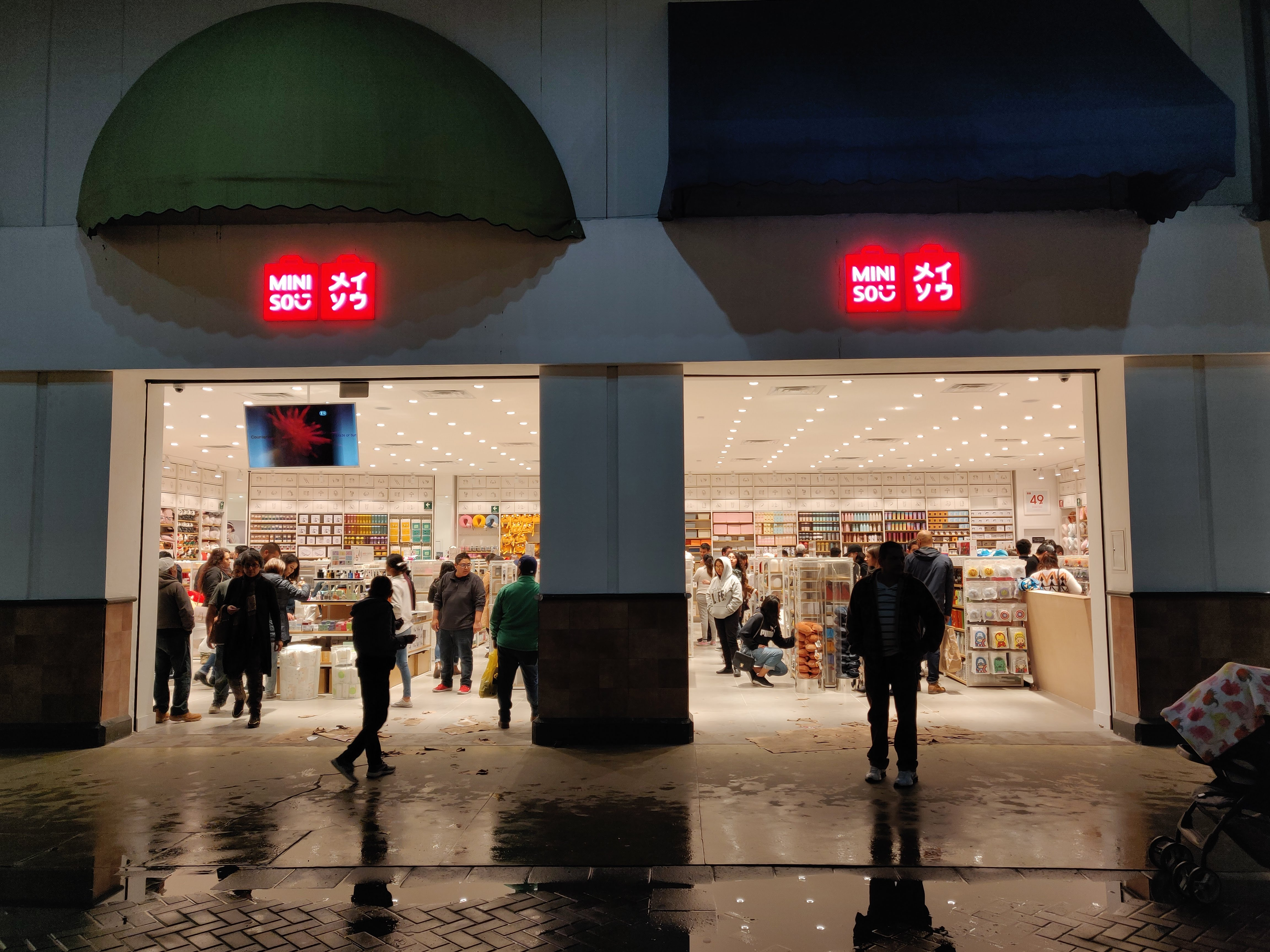 Miniso located in the Macroplaza shopping mall in Tijuana, Mexico.